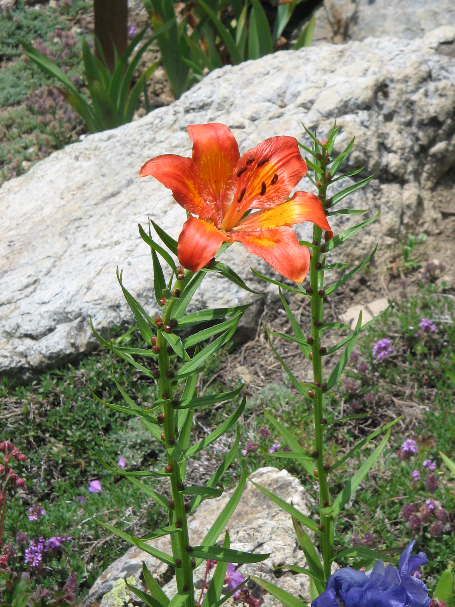 Lilium bulbiferum var. bulbiferum